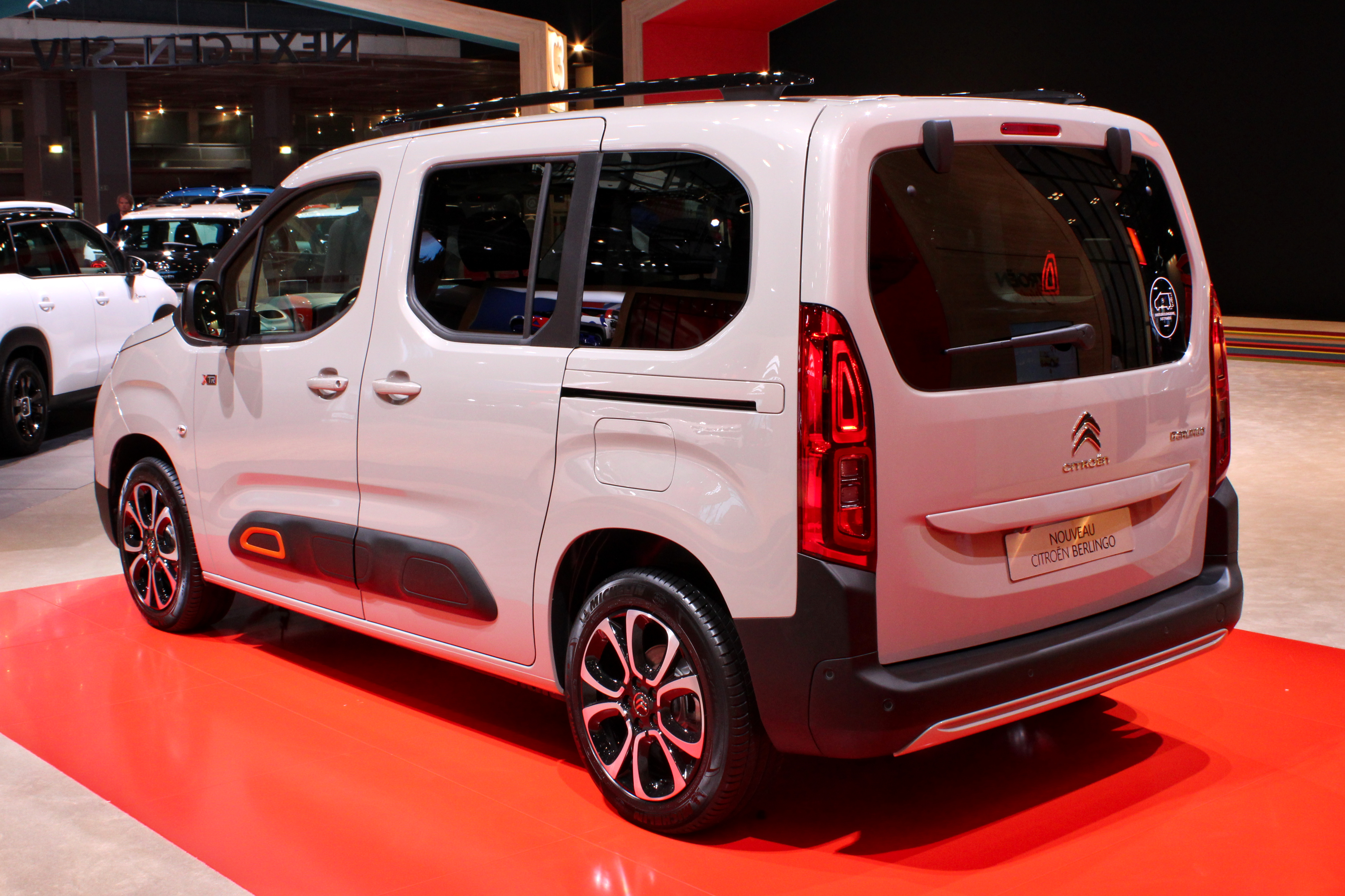 Citroen Berlingo at Paris Motor Show 2018